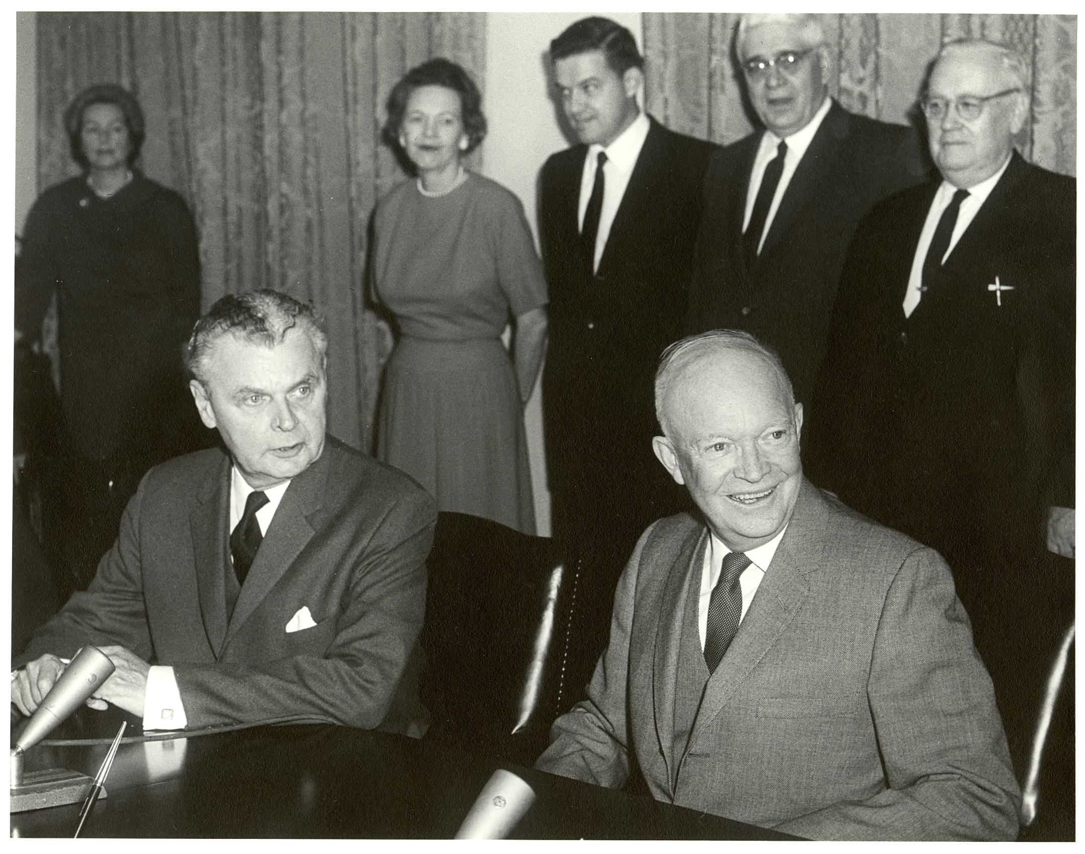 John Diefenbaker and Dwight Eisenhower at the signing of the Columbia River Treaty, January 1961